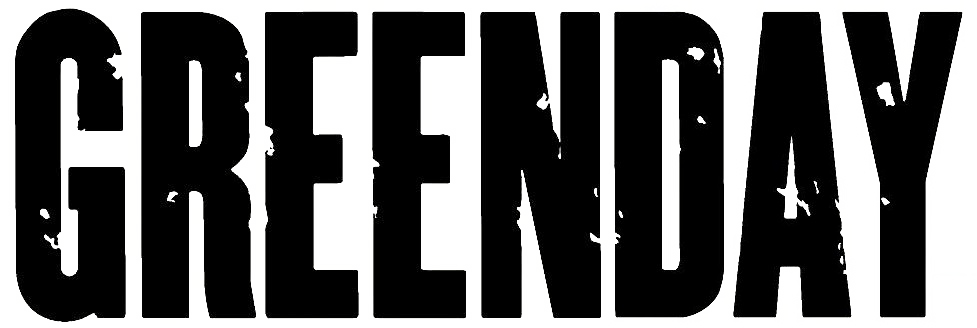 Green Day Logo